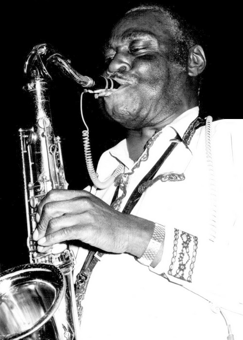 American blues saxophonist A.C. Reed in France